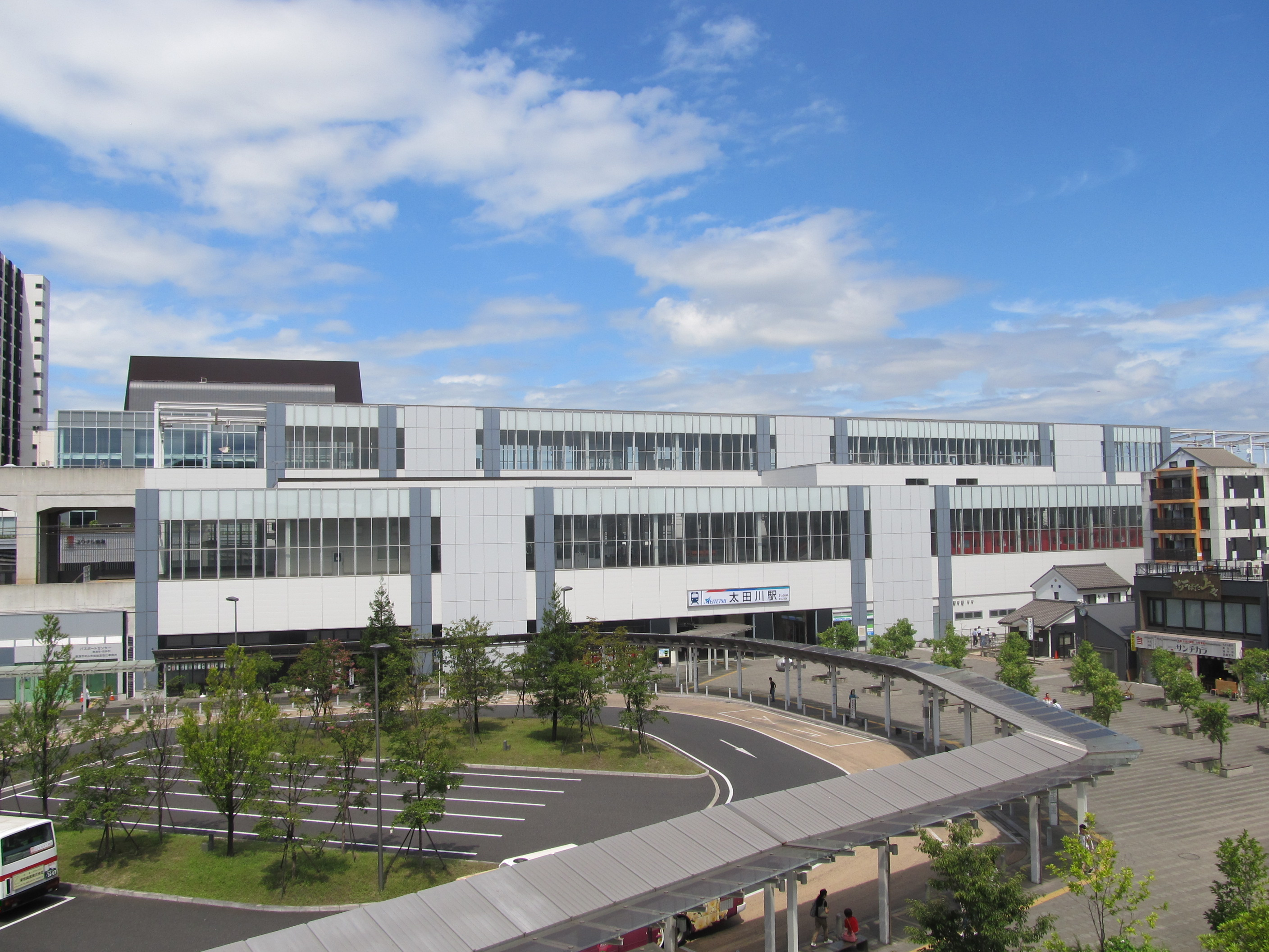 Nagoya Railroad Tokoname Line and Kowa Line Ōtagawa Station Eastplaza